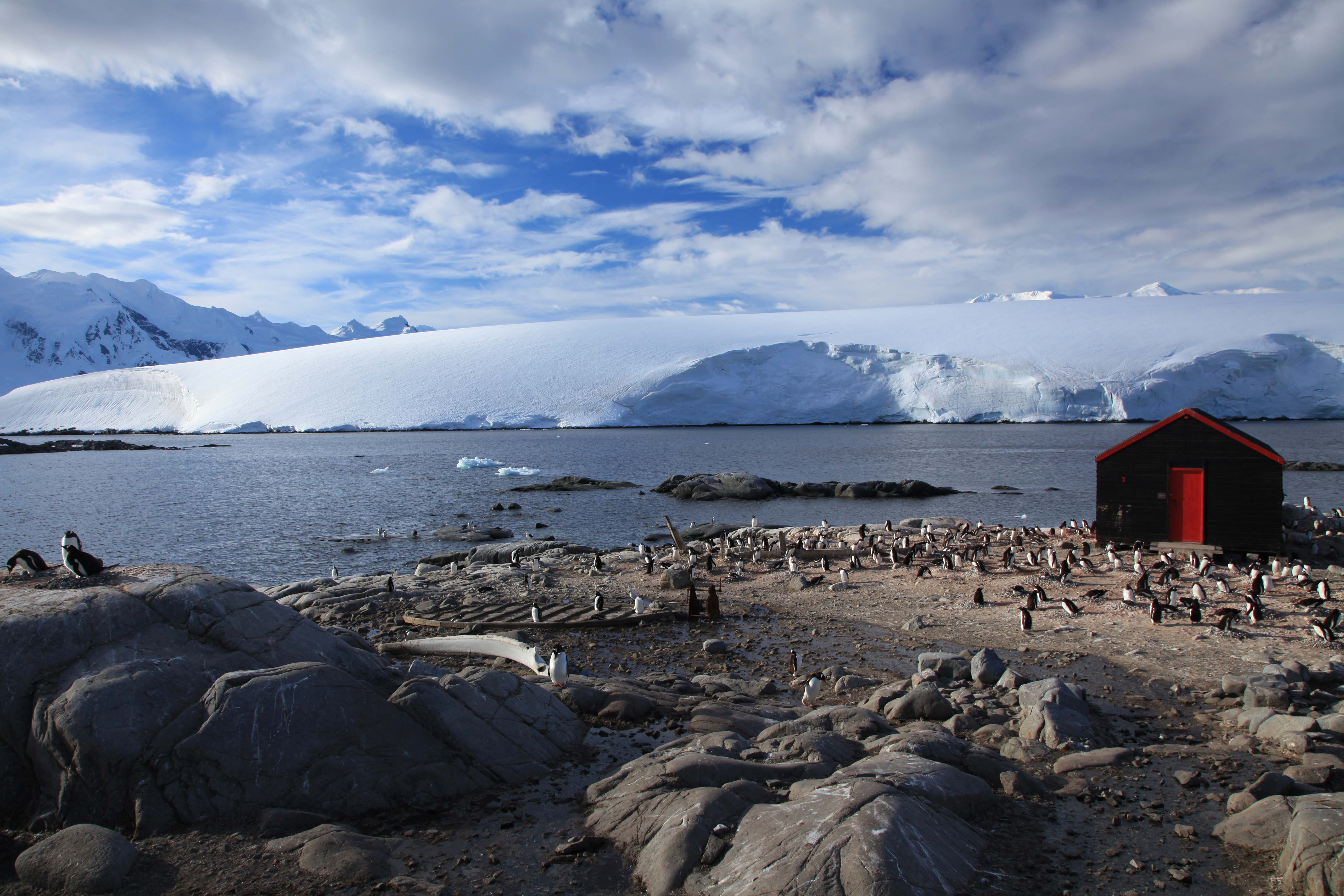 The boathouse of British Base A is surrounded by nesting Gentoo Penguins, with Wiencke Island in the background. Whale bones and skeletons of old ships are also visible at this historic site.